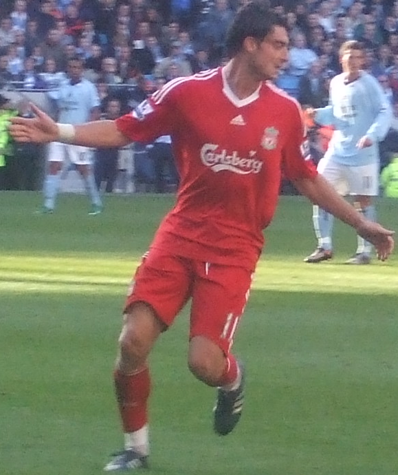 Albert Riera